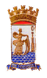 Emblem of the Alexandria Governorate.